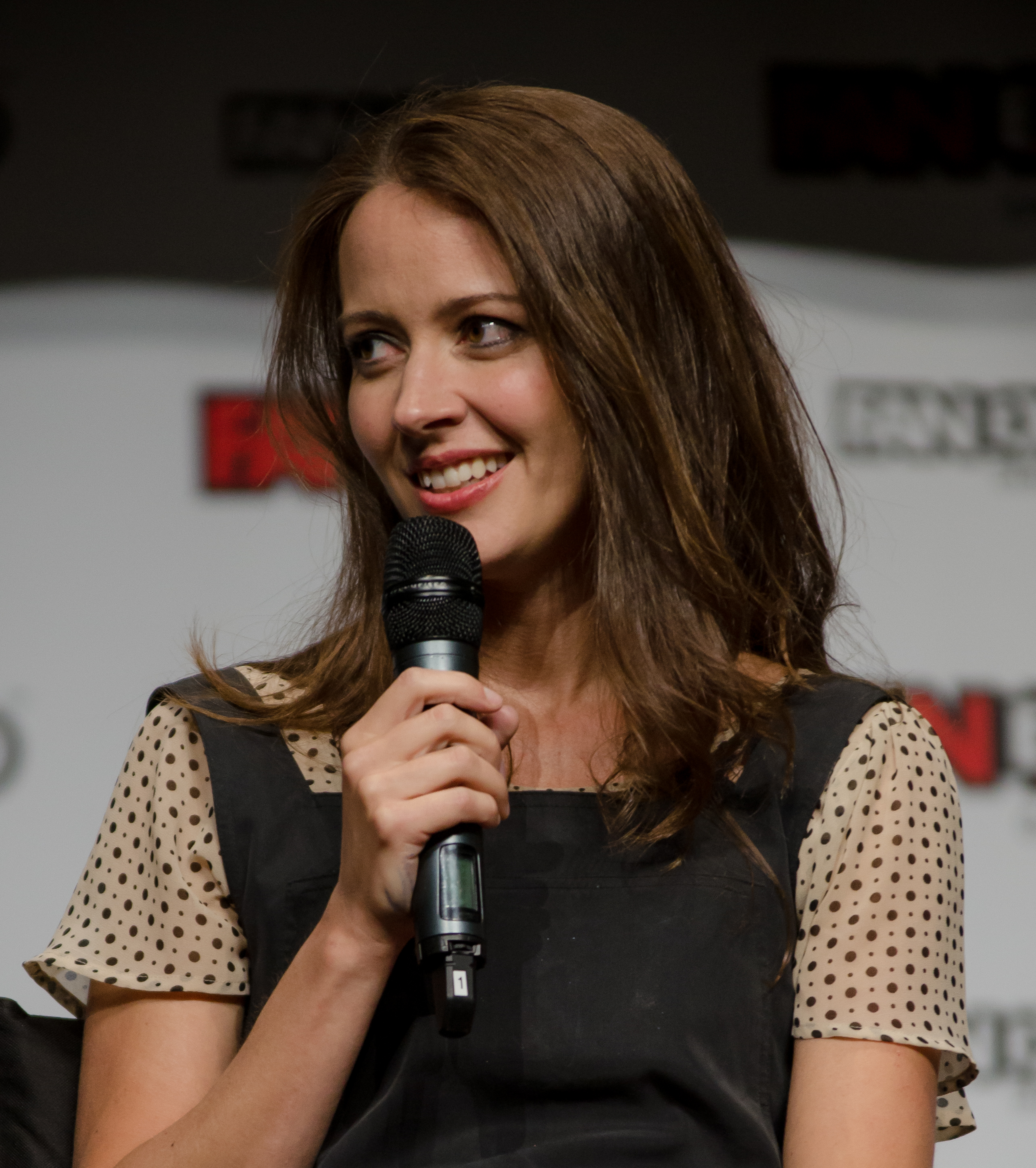 Amy Acker at Fan Expo 2015